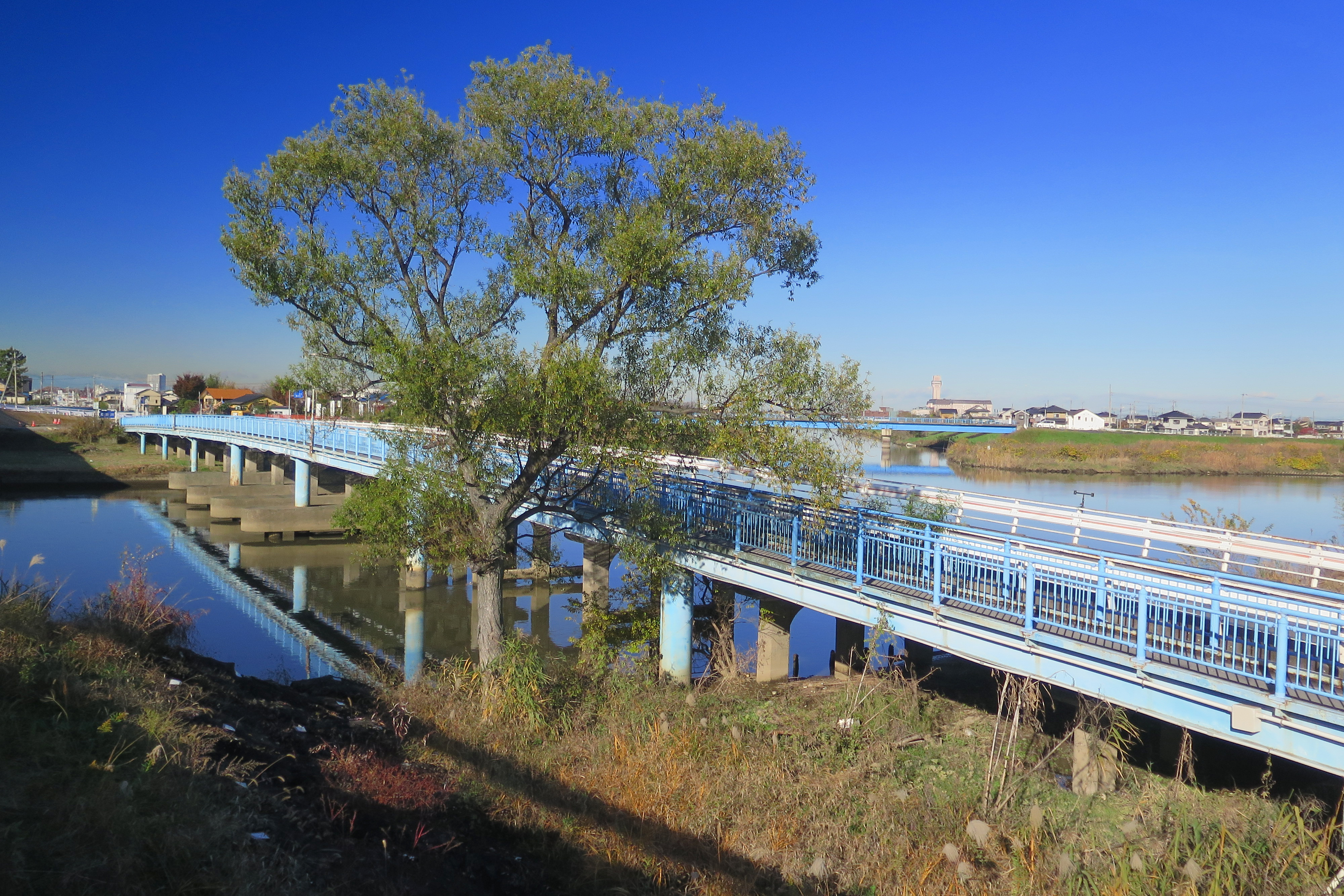 Yoshikawa Bridge Yoshikawa City, Saitama prefecture, Japan